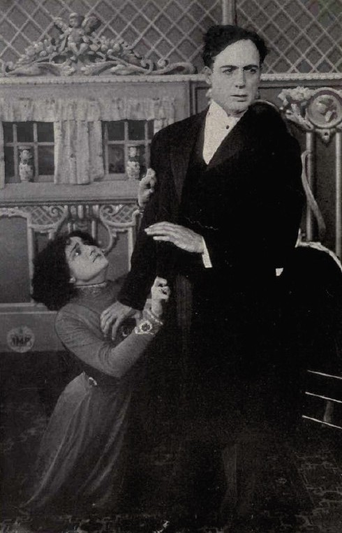 Still from the film The Temptress (USA 1911), directed by Joseph W. Smiley. This scene shows King Baggot as "Gilbert Irving" and Lucille Young as "The Temptress." The still was published in David S. Hulfish, Cyclopedia of Motion-Picture Work (1914).